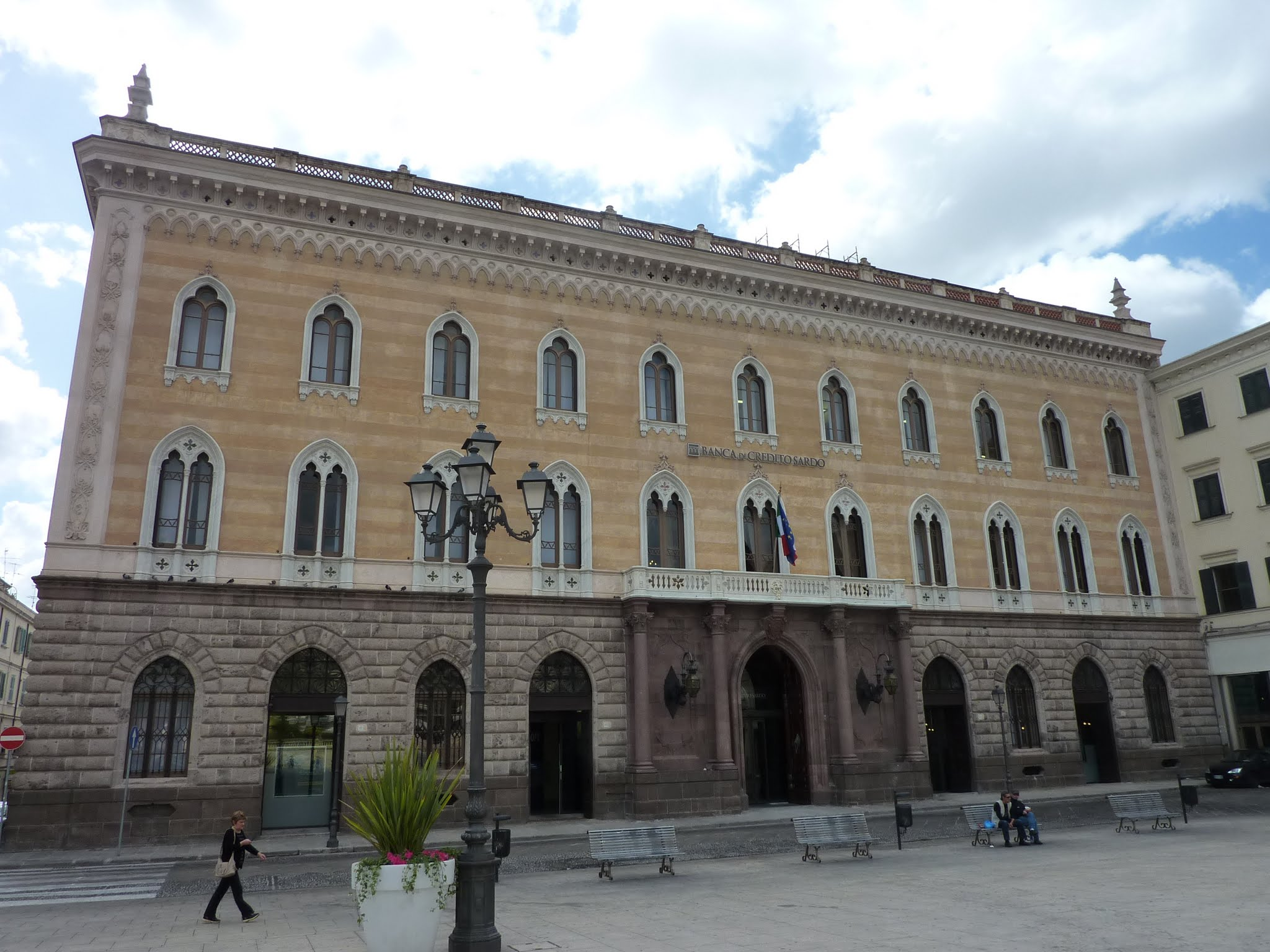 The palazzo Giordano Apostoli on Piazza d'Italia, in Sassari, Sardinia